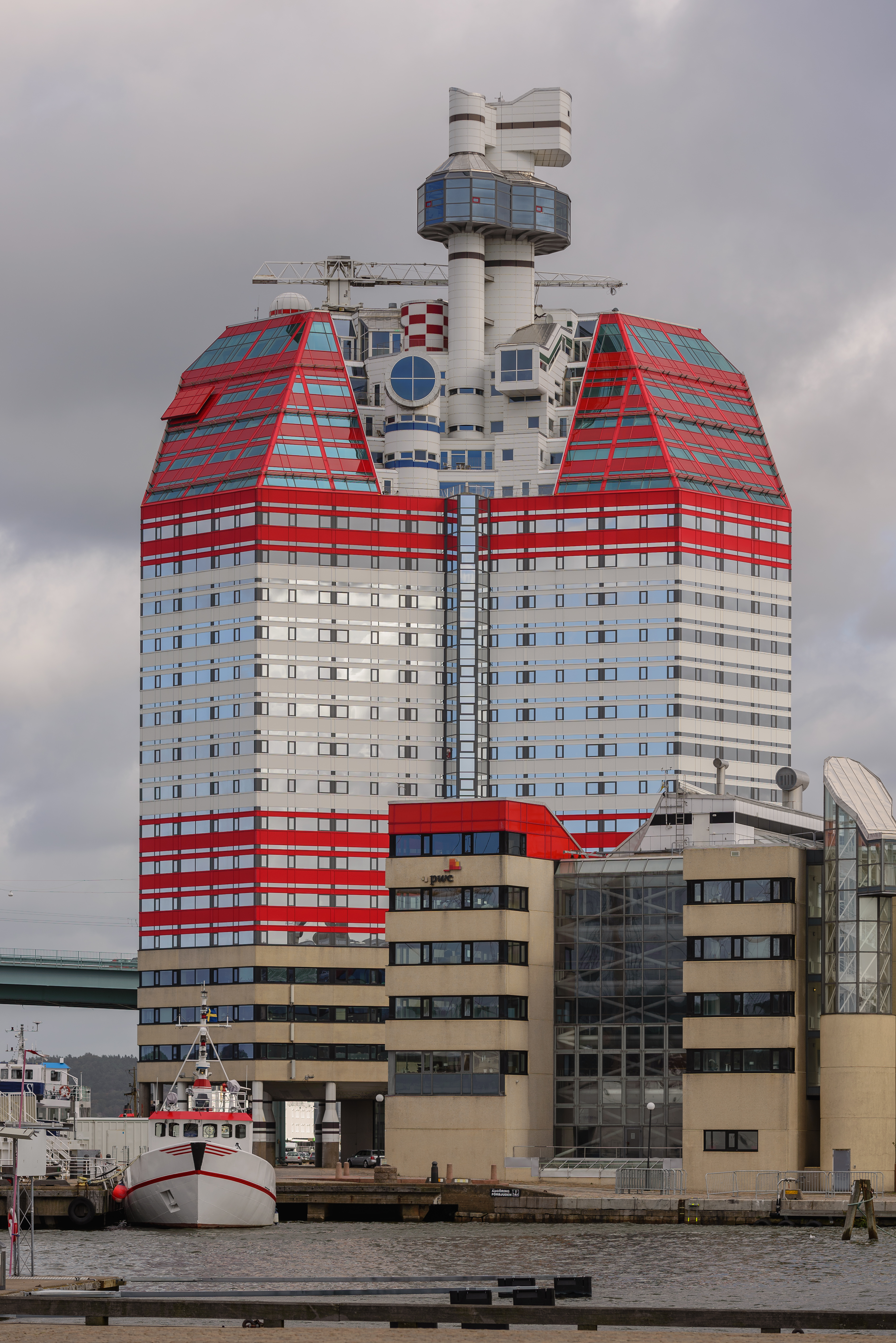 “Skanskaskrapan” in Gothenburg, Sweden; designed by Ralph Erskine